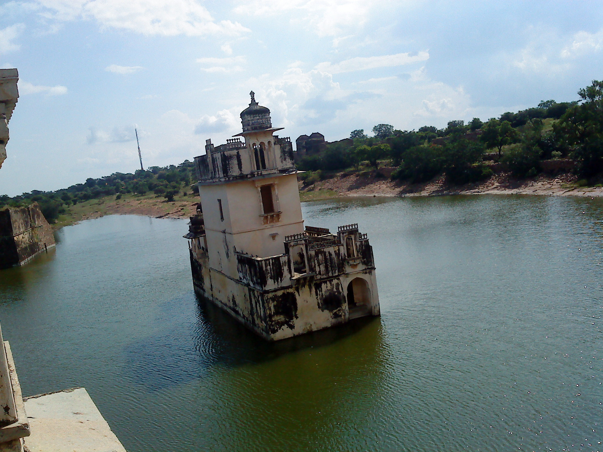 Padmini palace at chittaur garh fort